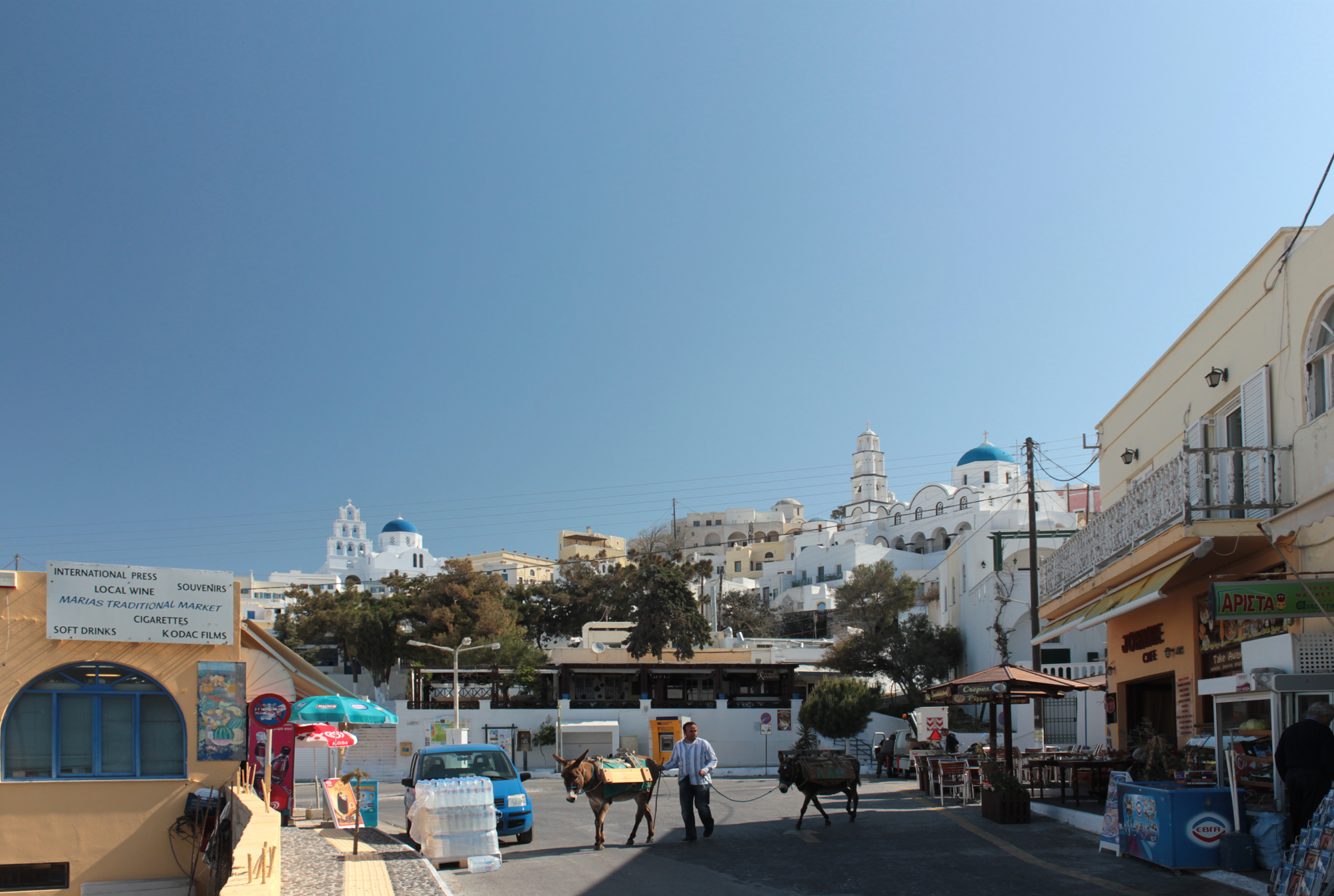 A street of Pyrgos, Santorini